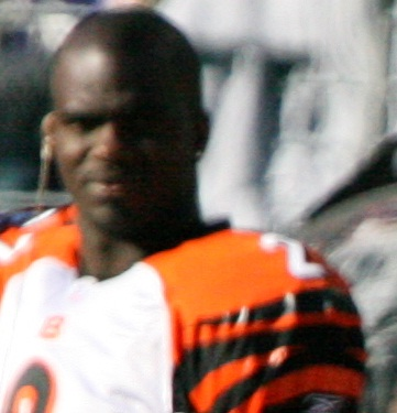 Anthony Wright, backup quarterback for Cincinnati Bengals